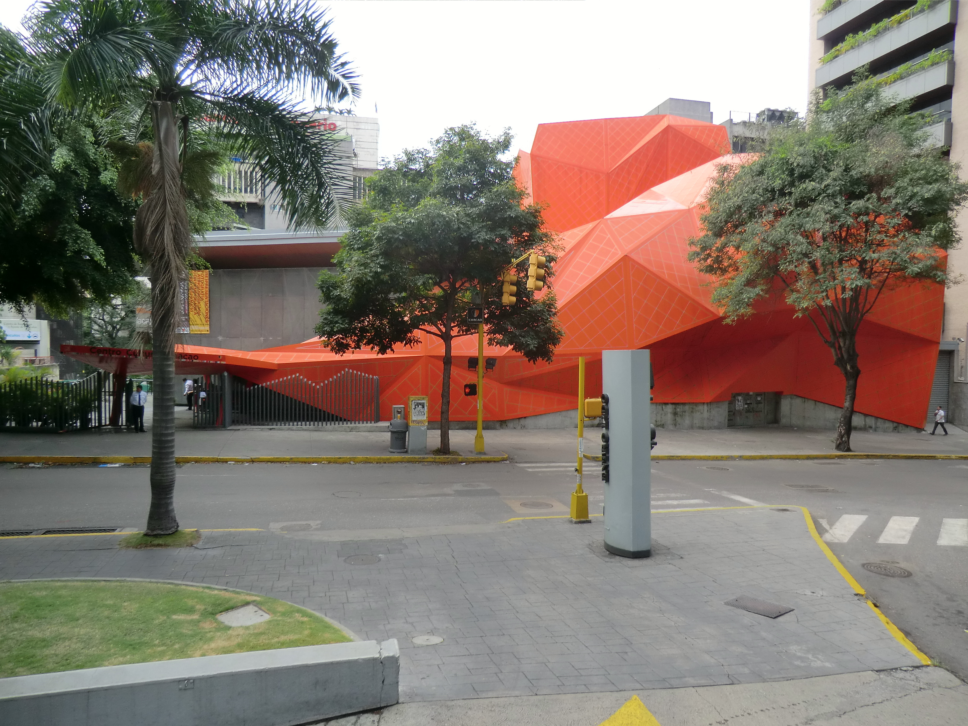 Fachada principal del Teatro Municipal de Chacao. Caracas, Venezuela.